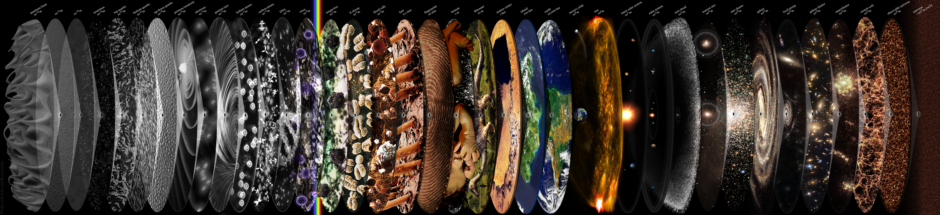 At 10^-32m is thought to exist a foam of twisted spacetime (Quantum foam). 10^-24m cross section radius of 1 MeV neutrinos. 10^-22m Top Quark, the smallest quark. 10^-20m Bottom and Charm quarks. 10^-18m Up and Down quarks. 10^-16m Protons and Neutrons. 10^-14m Electrons and nuclei. 10^-12m Longest wavelength of gamma rays. 10^-11m Radius of hydrogen and helium atom. 10^-10m Radius of carbon atoms. 10^-9m Diameter of the DNA helix. 10^-8m Smallest virus (Porcine circovirus). 10^-7m Largest virus (Megavirus). 10^-6m X Chromosome. 10^-5m Typical size of a red blood cell. 0.1mm Width of human hair. 10mm Width of an adult human finger. 1m Height of an infant human being. 10m Argentinosaurus is the biggest dinosaur discovered yet (30 to 35 meters). Human figure is for comparison. In reality humans and dinosaurs didn't live at the same time. 1km Diameter of Barringer Crater in the northern Arizona desert (1186m). 100km Jamaica Island (235km long). 10000km Diameter of planet Earth (12,742 km). 10^8m Moon's orbit (770,000km). 10^9m Diameter of the Sun (1391400km). 10^11m Diameter of the inner Solar System. (600,000,000 km) 10^13m Diameter of the Solar System. 10^15m Outer limit of the Oort Cloud. 10^16m Distance to Alpha Centauri. 10^18m Messier 13 globular cluster. 10^20m Diameter of the Milky Way Galaxy. 10^22m Local Group of galaxies including Milky Way, M31(Andromeda), M33, SMC, LMC and smaller galaxies. 10^23m Typical galaxy cluster (2 to 10 Mpc). 10^24m Laniakea Supercluster of galaxies. (160 Mpc) 10^25m End of Greatness ("Cosmic web" structure). 10^26m Diameter of the observable universe sphere. The entire Universe is larger than 10^27m and possibly infinite.